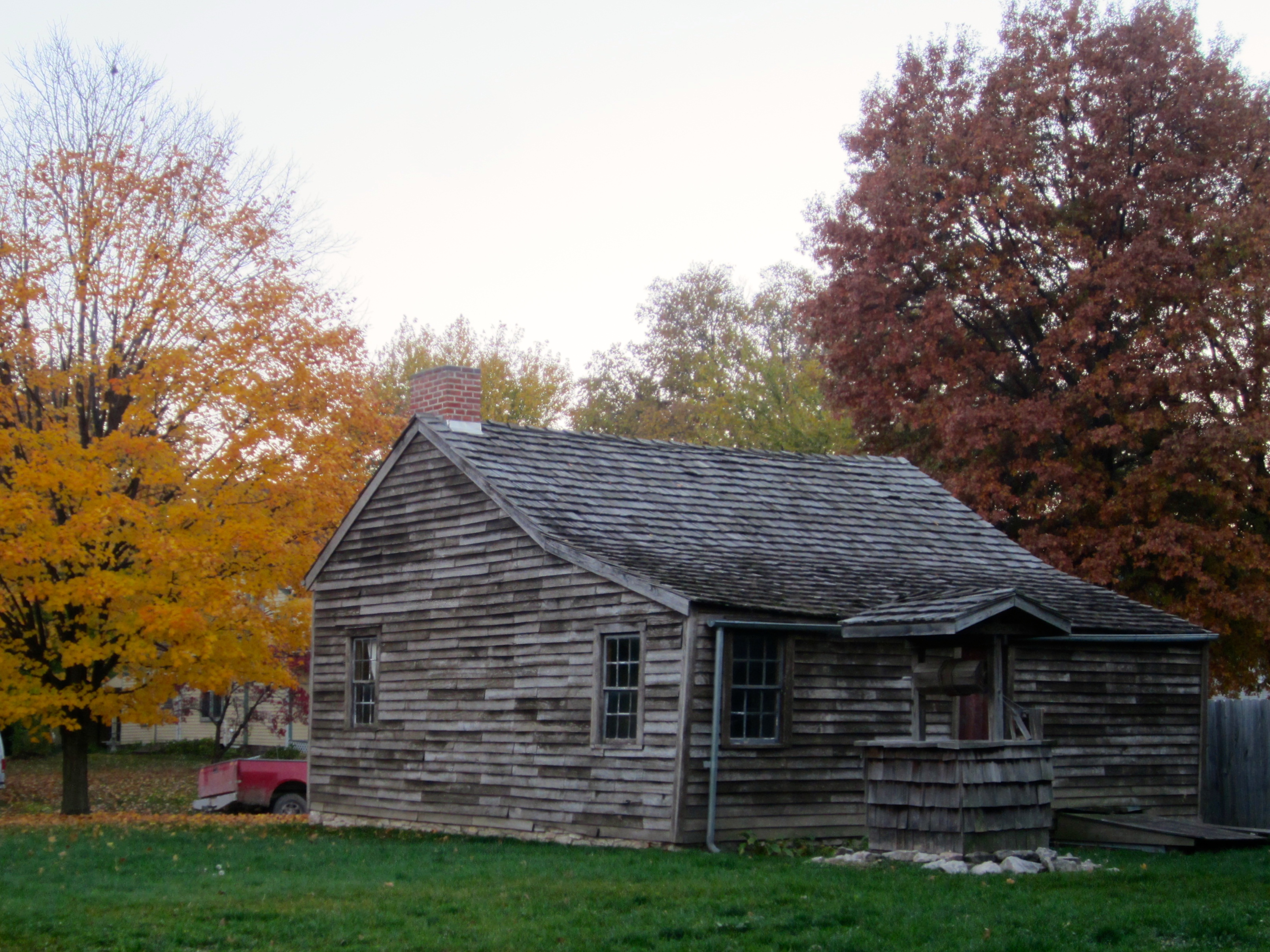 The back side of the historical John Shastid house in Pittsfield, Pike County, Illinois, USA.